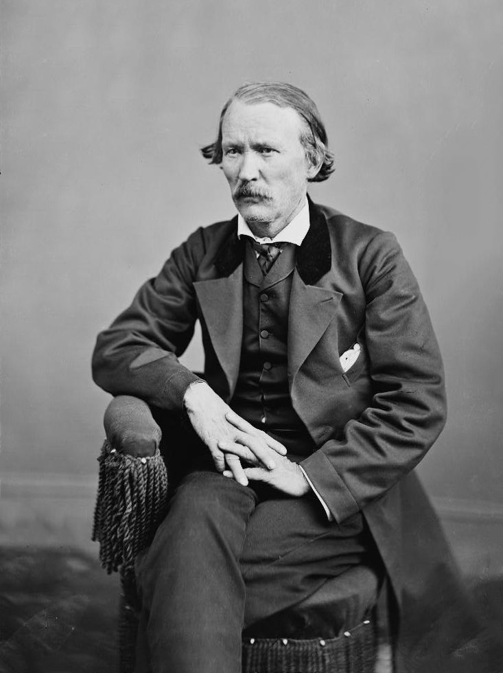 Christopher 'Kit' Carson (1809-1868), American explorer